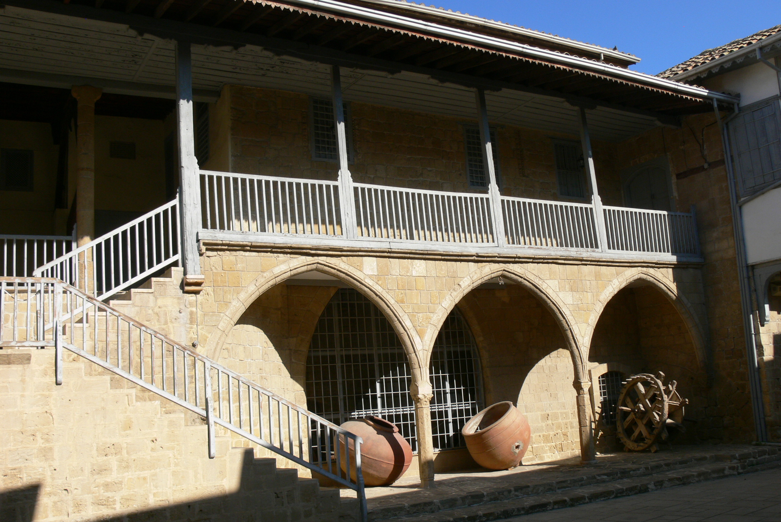 Nicosia ( Cyprus ). Museum of Folk Art - Cloisters ( 15th century ) of a former Benedictine monastery.